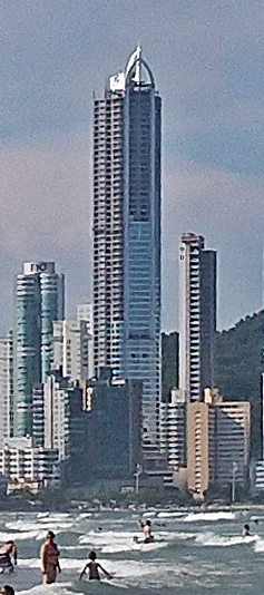 The Barra Norte with the Infinity Coast in evidence seen from of the Central beach in december 2018, in Balneário Camboriú, Santa Catarina, Brazil.